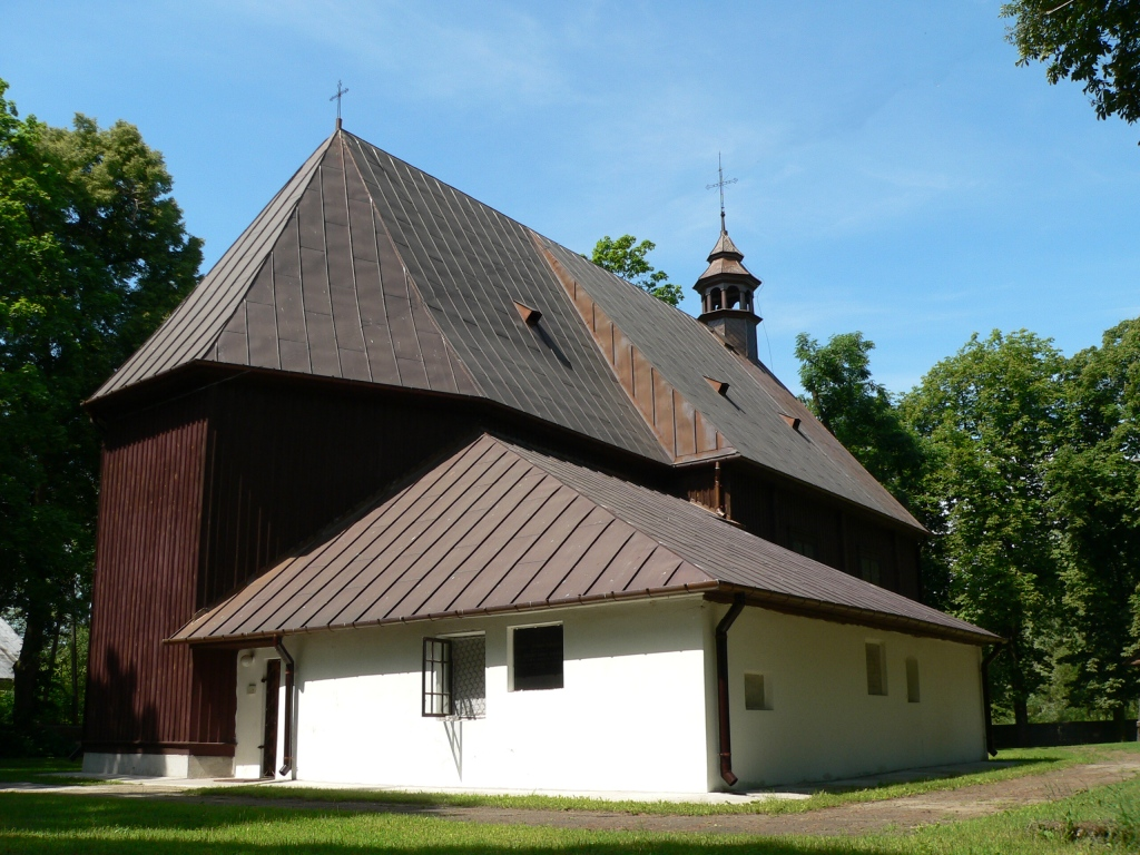 Wooden church in Dobrzyków